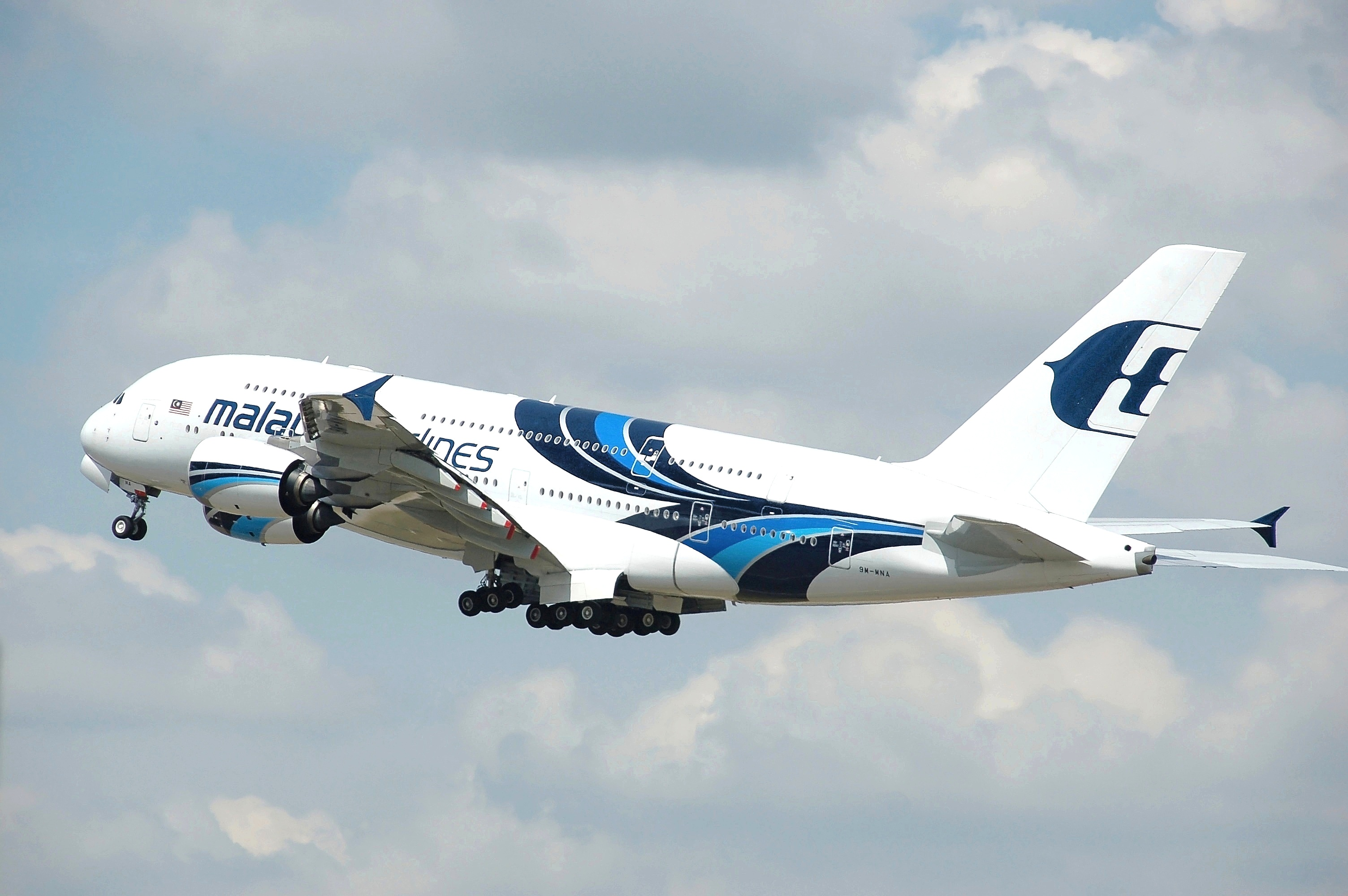 Malaysia Airlines Airbus A380-800 (9M-MNA) departs London Heathrow Airport.